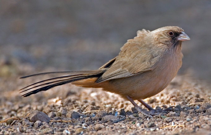 Pipilo aberti - Abert's Towhee, Visitor's Center, Salton Sea National Wildlife Refuge, California